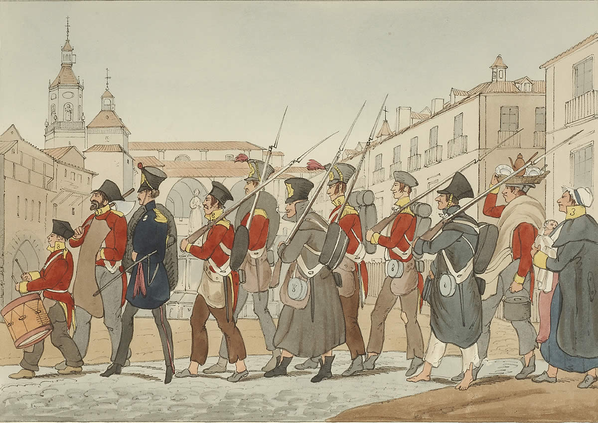 Members of the British Auxiliary Legion during the First Carlist War marching at Vitoria, northern Spain (1837)